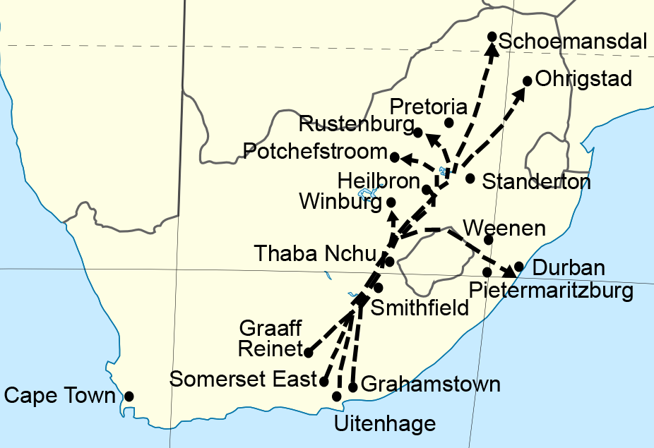 The dotted line on this map shows the route of the Voortrekkers. Source: Map Of The Route Of The Thirstland Trekkers, which is taken from The Great Trek by Oliver Ransford (1968)